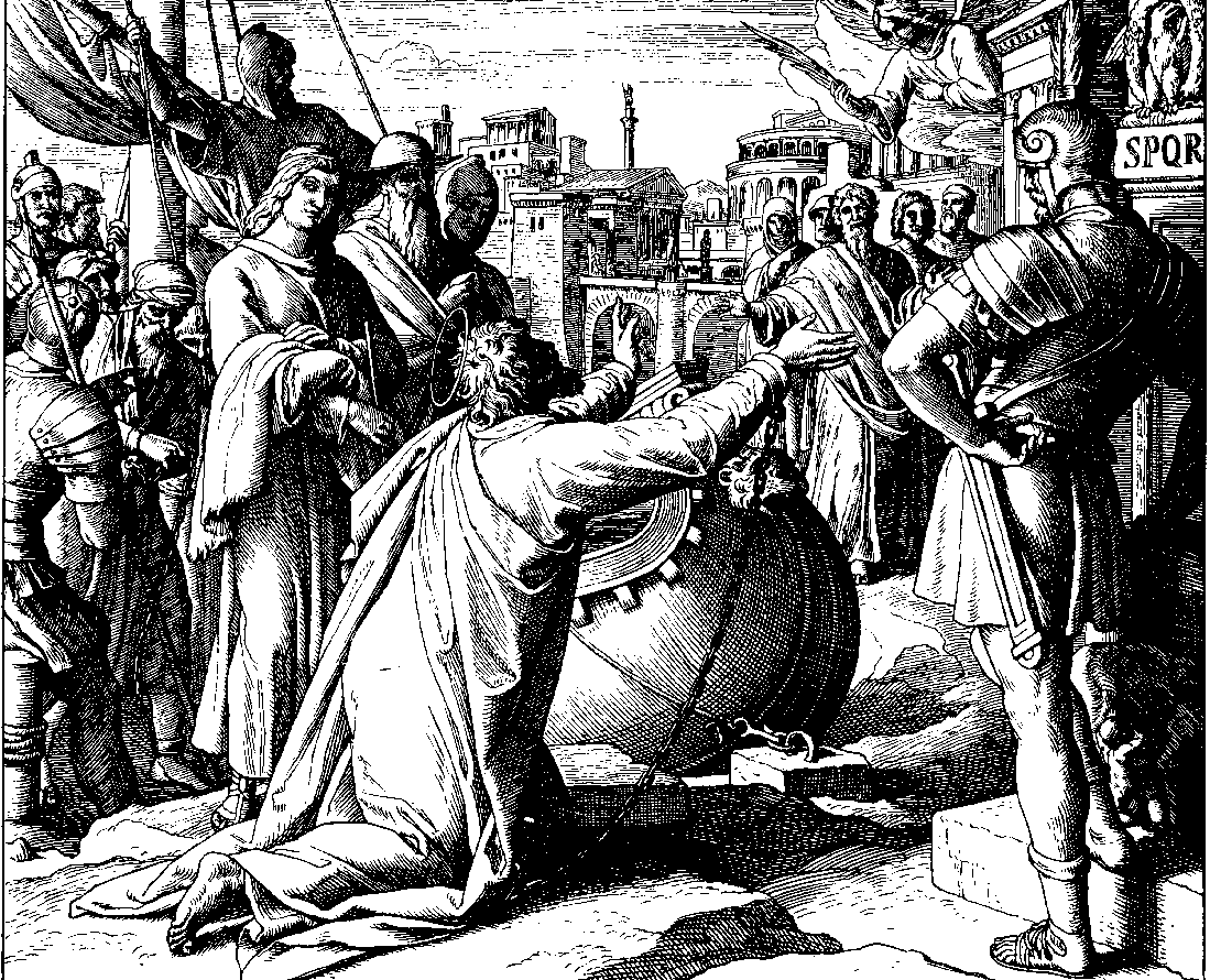 Woodcut for "Die Bibel in Bildern", 1860.